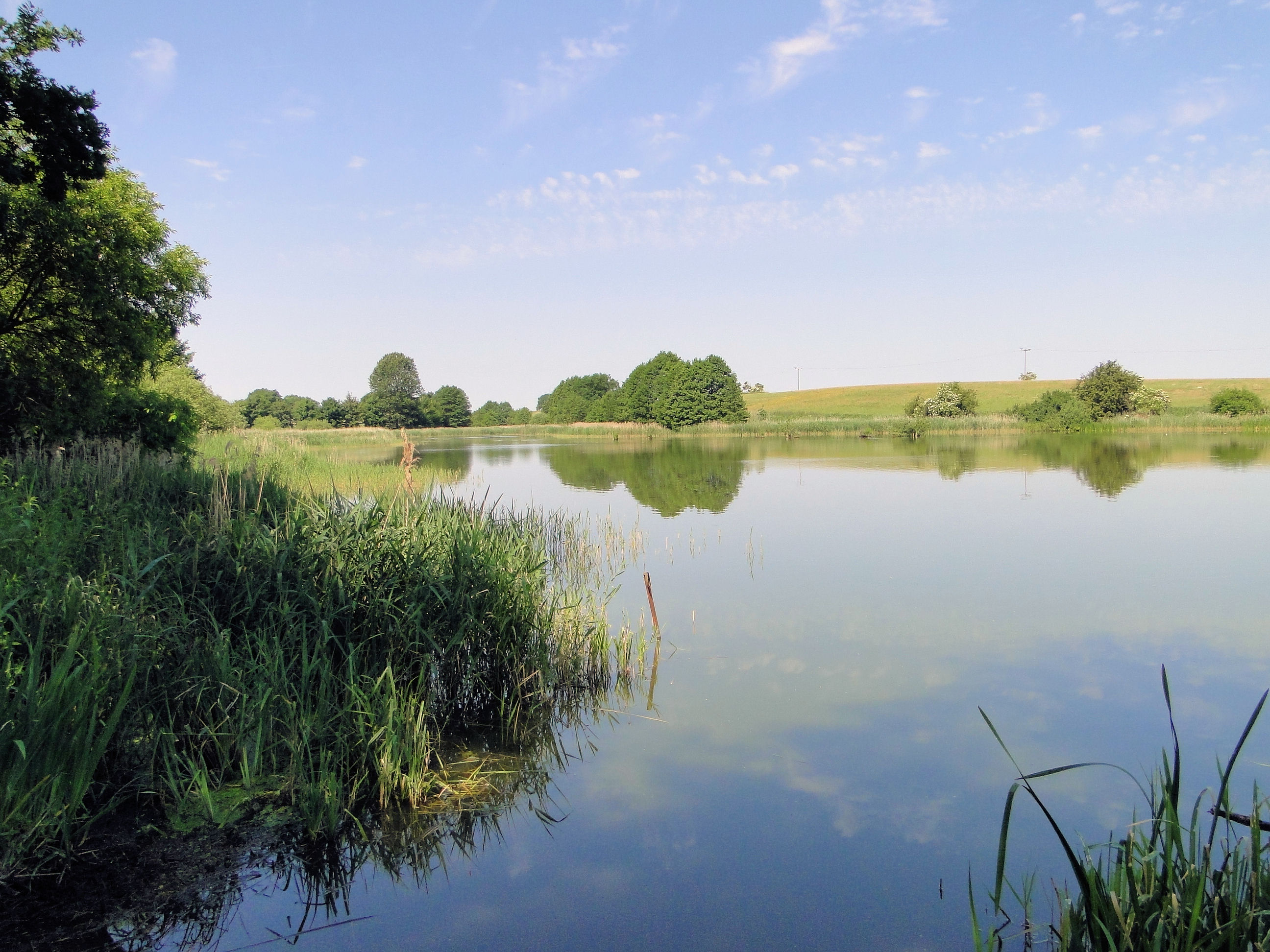 Reservoir near Gottmannsförde (so called Speicher Faulmühle), district Nordwestmecklenburg, Mecklenburg-Vorpommern, Germany